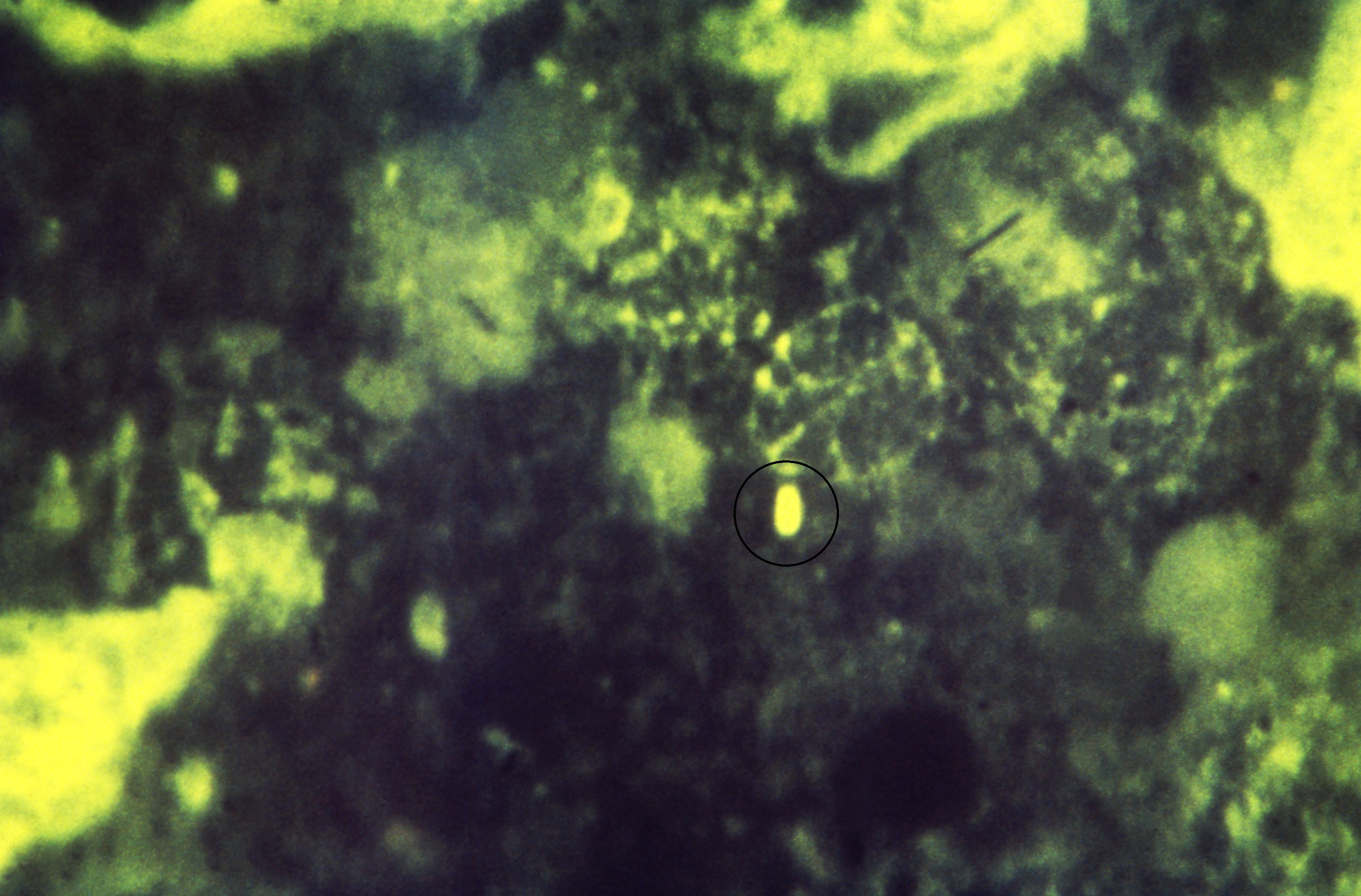 This immunofluorescent-stained sample of guinea pig tissue revealed the presence of a rod shaped, Burkholderia pseudomallei bacteria, which led to a positive diagnosis of melioidosis.